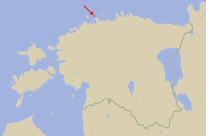 Aegna on the map of Estonia.